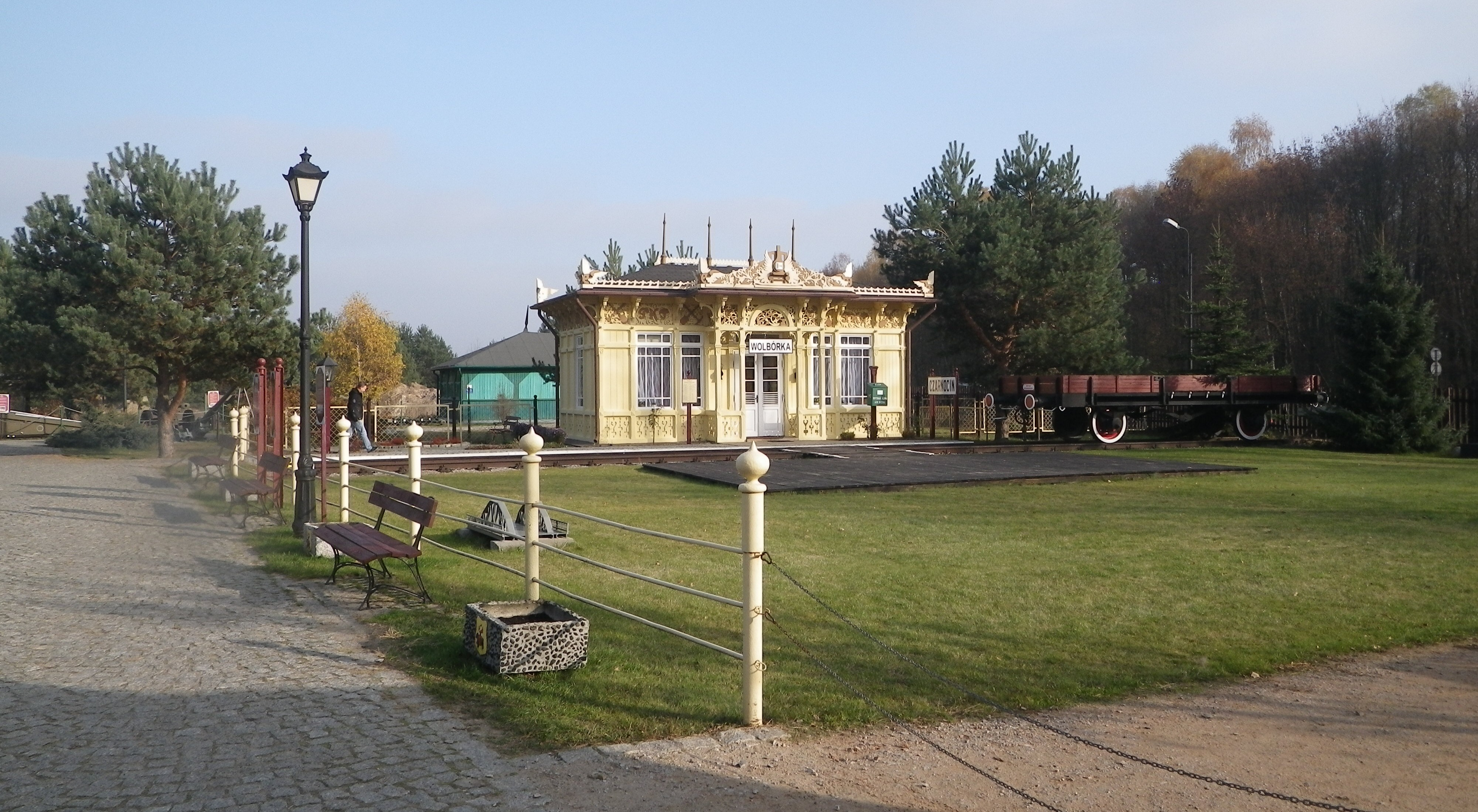 Pilica River Open-Air Museum (Skansen Rzeki Pilicy) in Tomaszów Mazowiecki - general view